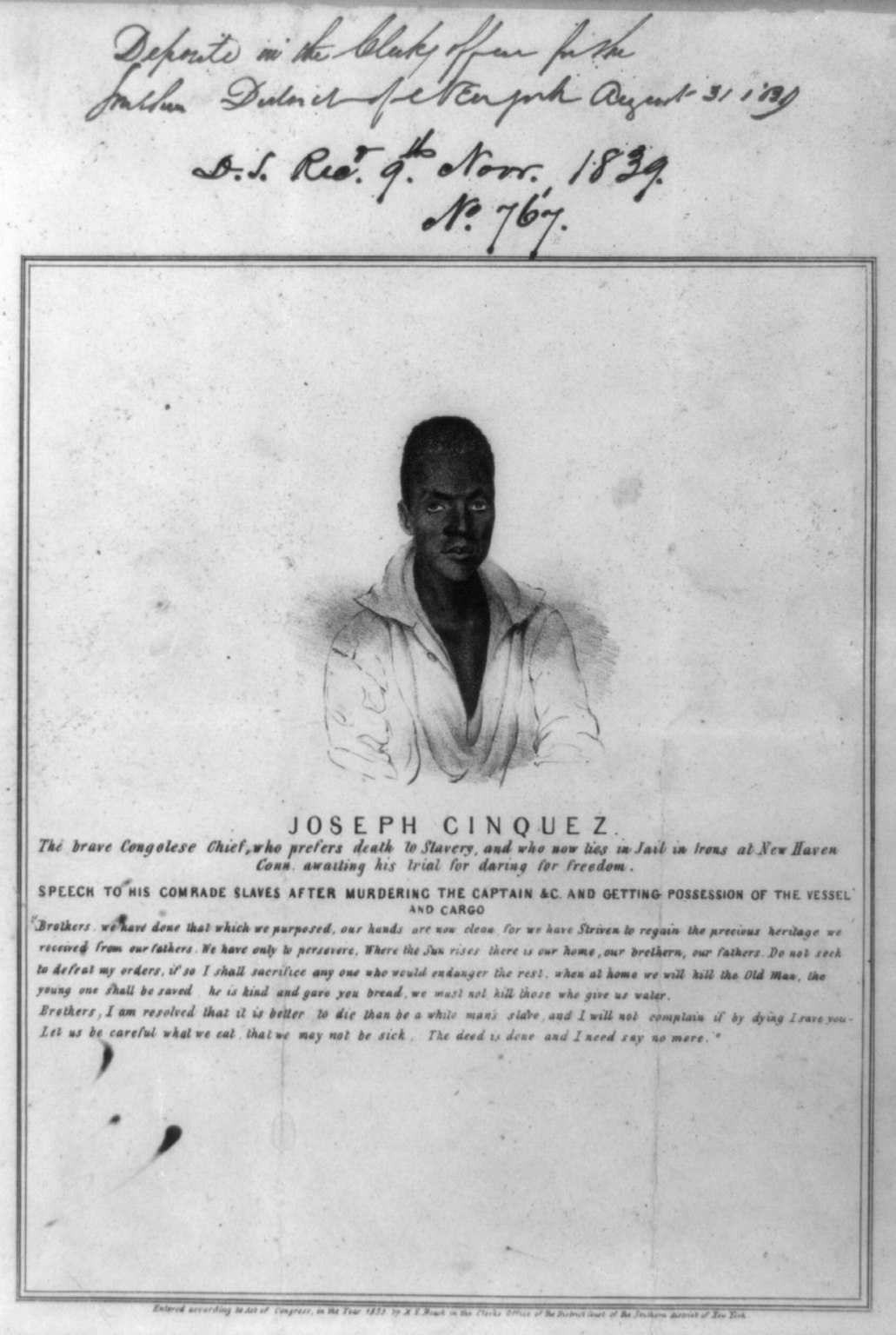 Title: Joseph Cinquez, the brave Congolese Chief, who prefers death to slavery, and who now lies in jail Abstract: Joseph Cinquez was the leader of a revolt among African slaves aboard the Spanish ship "Amistad" en route to Cuba in June 1839. The slaves seized control of the ship but were soon recaptured and charged with murder and piracy. This portrait was done while Cinquez (or "Cinque") awaited trial in New Haven, Connecticut. John Quincy Adams represented the Africans before the Supreme Court, and thanks to his eloquence, they were set free and allowed to return to Africa. Sheffield's portrait is sympathetic and informal. The text quotes Cinquez's sober and moving speech to his comrades on board ship after the mutiny. He said, "Brothers, we have done that which we purposed, our hands are now clean for we have Striven to regain the precious heritage we received from our fathers. . . . I am resolved it is better to die than to be a white man's slave . . ." Commissioned by the publisher of the New York "Sun," the print was described and advertised for sale in the account of the capture of the "Amistad," published in that newspaper's August 31, 1839 issue. (The "Sun" account, evidently erroneous in this detail, names the artist as "James" Sheffield.) The Library's impression of the lithograph was deposited for copyright the same day. Physical description: 1 print on wove paper : lithograph ; image 23.2 x 20.1 cm. Notes: Title from item.; Exhibited: Capitol Visitors Center of the Library of Congress, Washington, D.C., 2011.; "Entered ... 1839 by M[oses] Y. Beach ... Southern District of New York."; Probably drawn by James or Isaac Sheffield.; Exhibited: American treasures of the Library of Congress, Washington, DC, 2003. DLC; Published in: American political prints, 1766-1876 / Bernard F. Reilly. Boston : G.K. Hall, 1991, entry 1839-13.